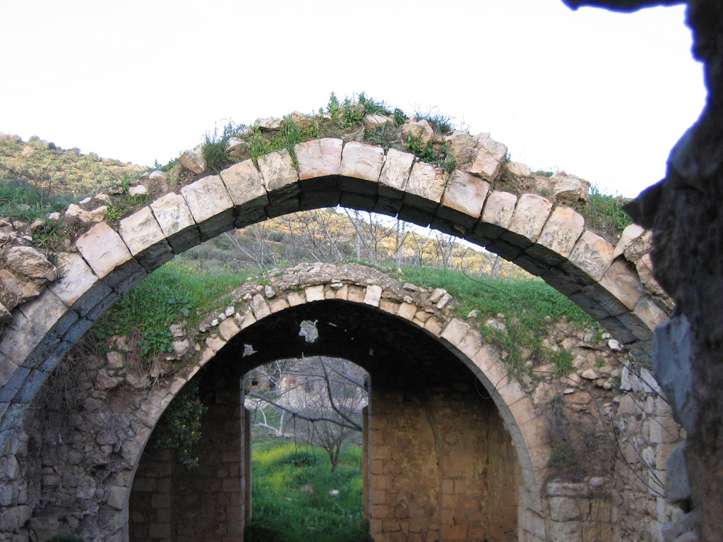 Han Al-Luban, Archeological sites of Israel